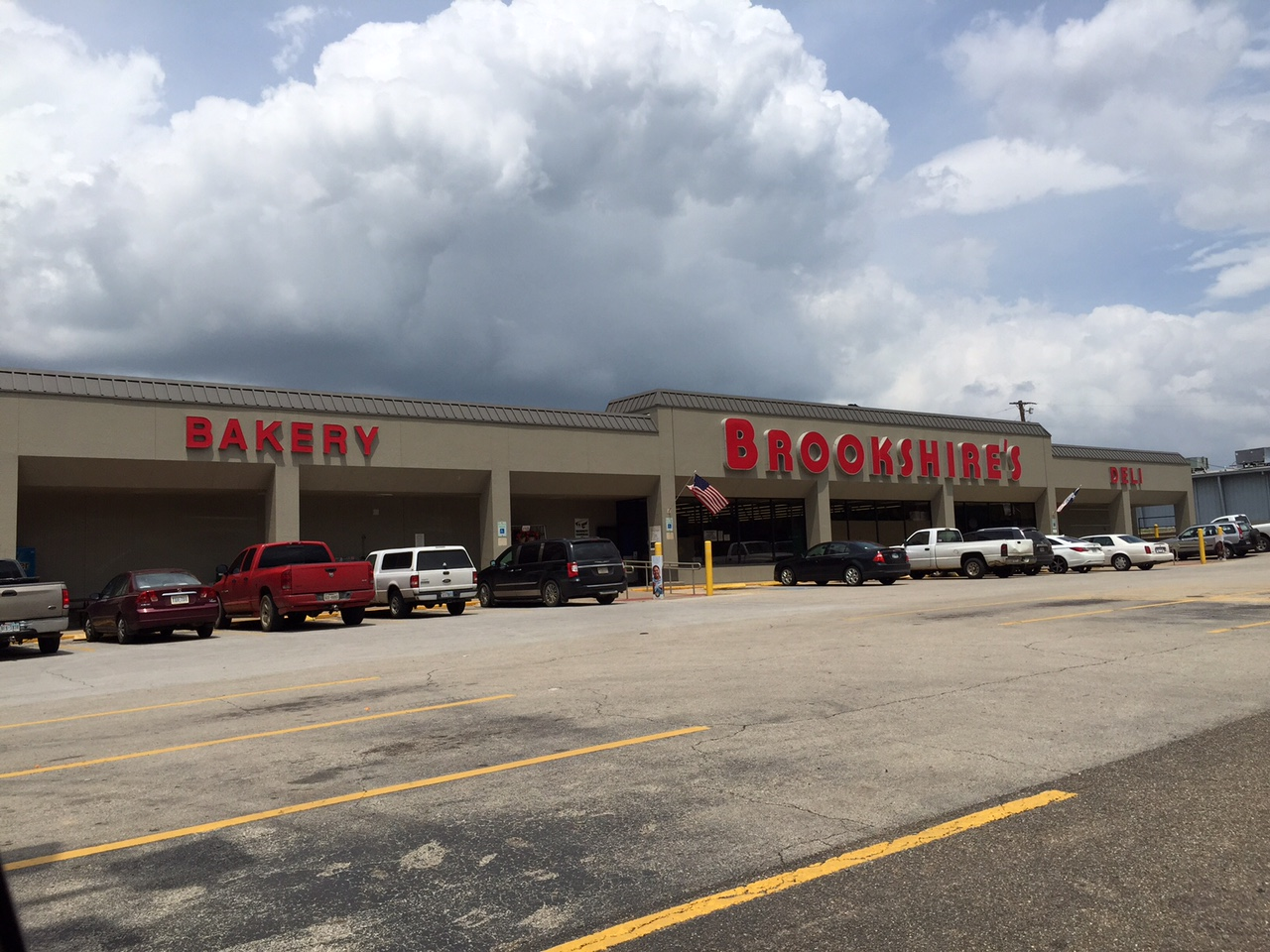 Brookshire's grocery store in Overton, Texas, USA